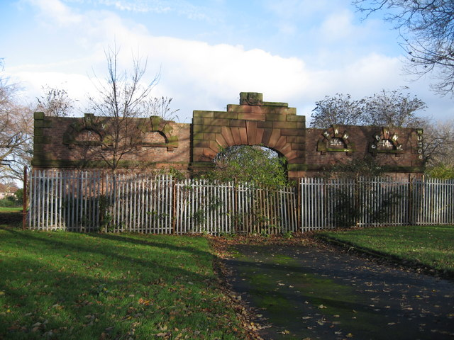 Norris Green The vandalised and graffiti strewn ruins of Norris Green, the mansion built in 1830 to replace the original mansion built in the 17th century by the Norris family. It stands in the park which was created for the large Norris Green council estate from the grounds of the mansion. The building itself was demolished in 1931 leaving just one wall of sandstone blocks showing the classical architecture of what was once there. Above the arch, a crest with inscription: ALTE VOLO "I fly high".